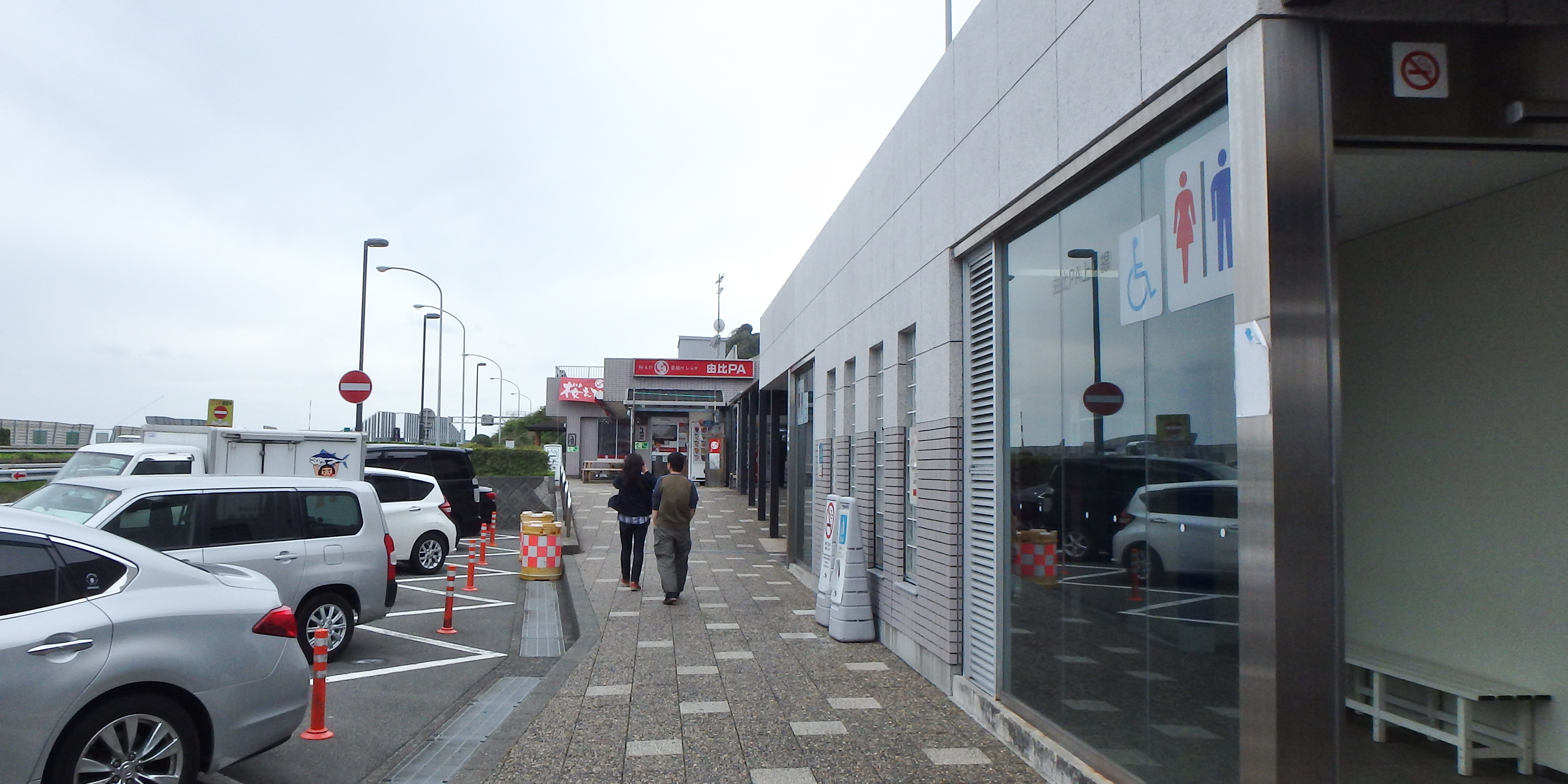 Yui Parking Area for Tokyo,Shizuoka prefecture,Japan